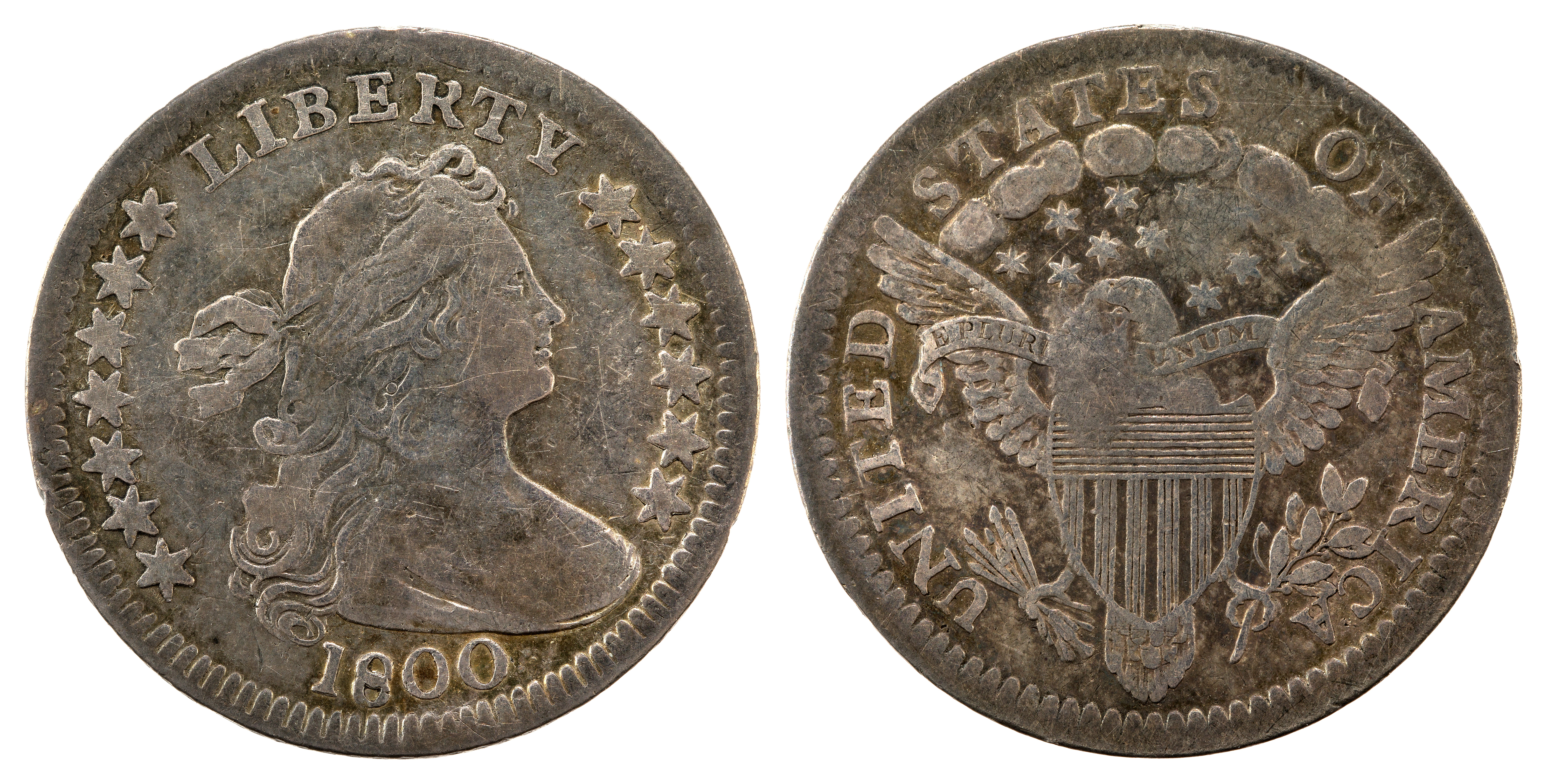 1800-5C-Draped Bust (heraldic eagle)JN2015-6564-65